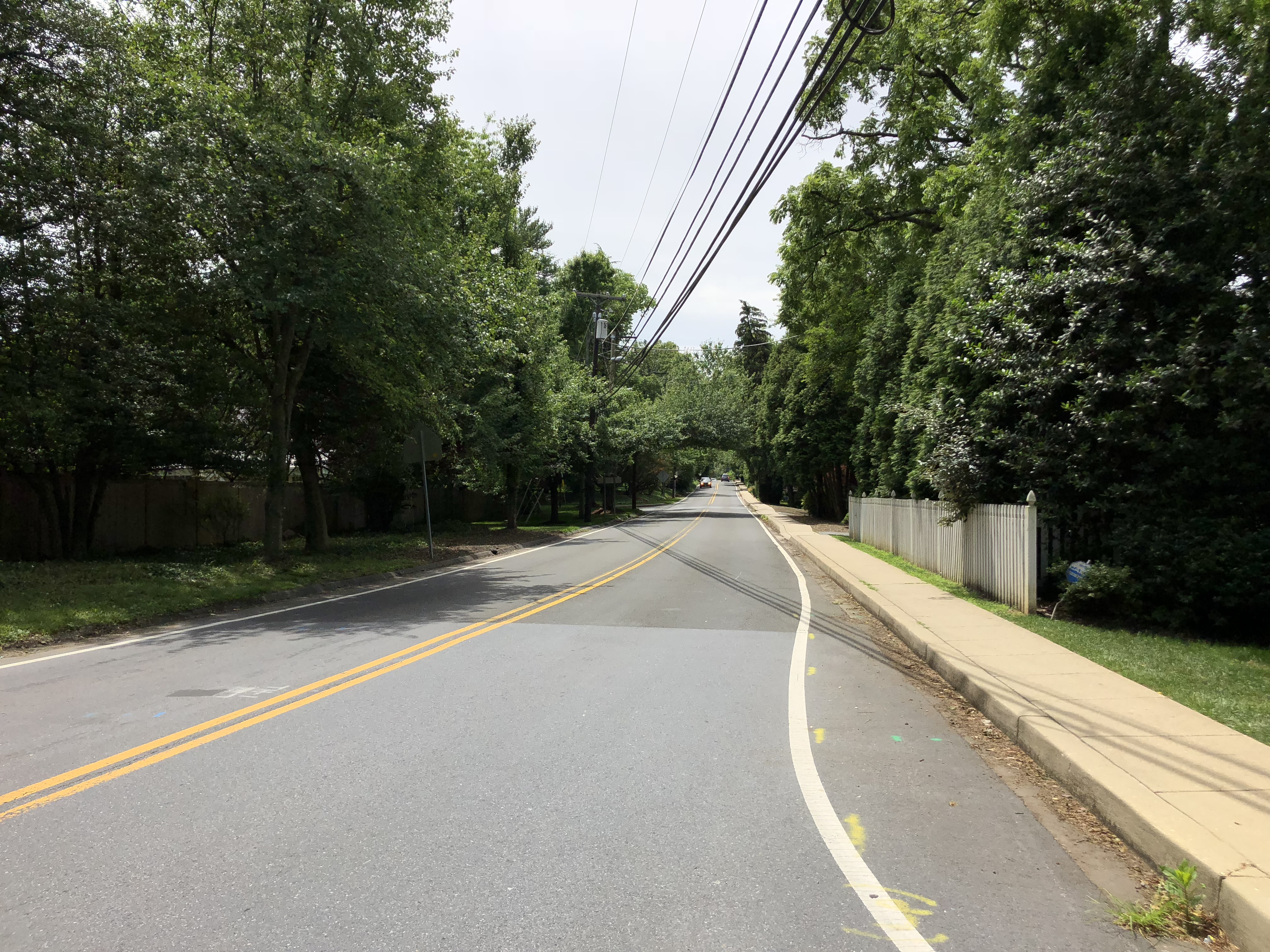 View south along Maryland State Route 186 (Brookville Road) just south of Woodbine Street in Chevy Chase Section Five, Montgomery County, Maryland